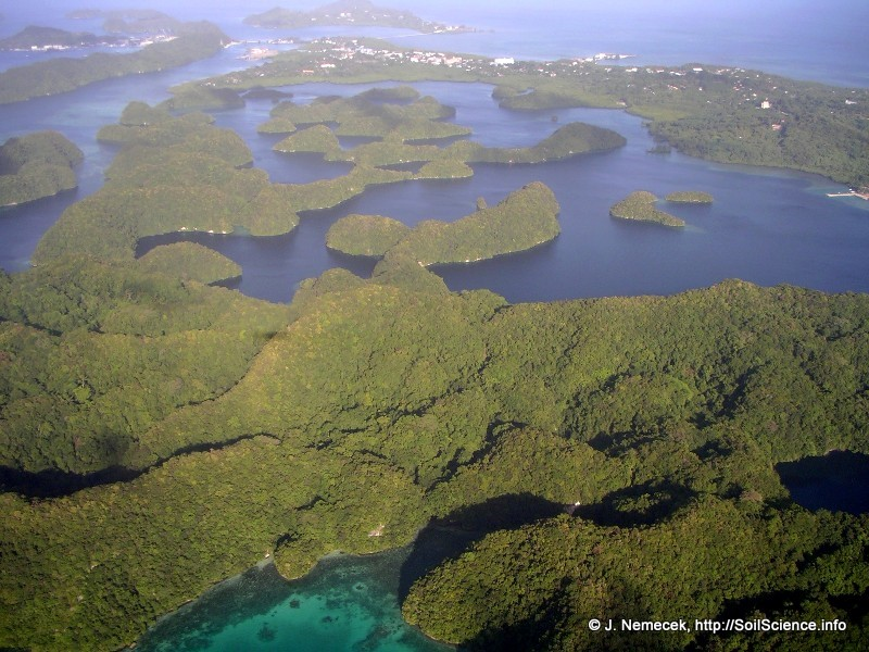 Aerial view of Palau islands